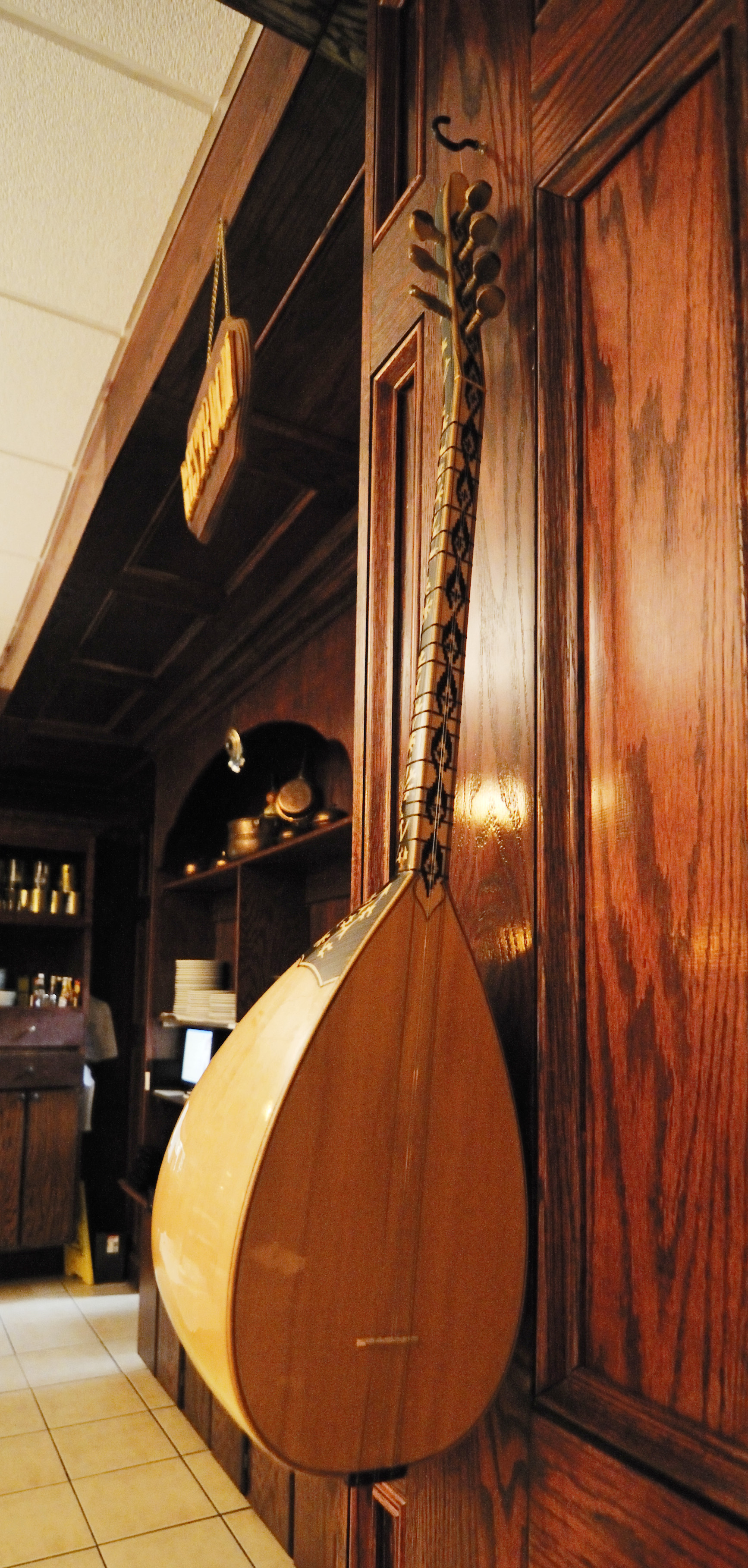 I am not sure if this is a Oud or a Citar. someone please correct me. Taken at a Turkish Restaurant in Dublin, OH. yes, we're weird. went to a Turkish restaurant on Christmas eve. edit: 1.11.09 - corrected title based on explanation below